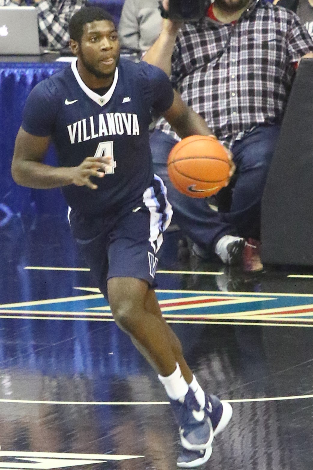 Eric Paschall for the w:2016–17 Villanova Wildcats men's basketball team at Allstate Arena